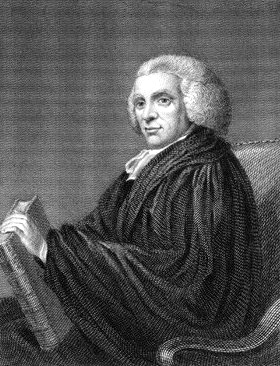 Portrait of William Jones (1726-1800), known as William Jones of Nayland, English clergyman and author.